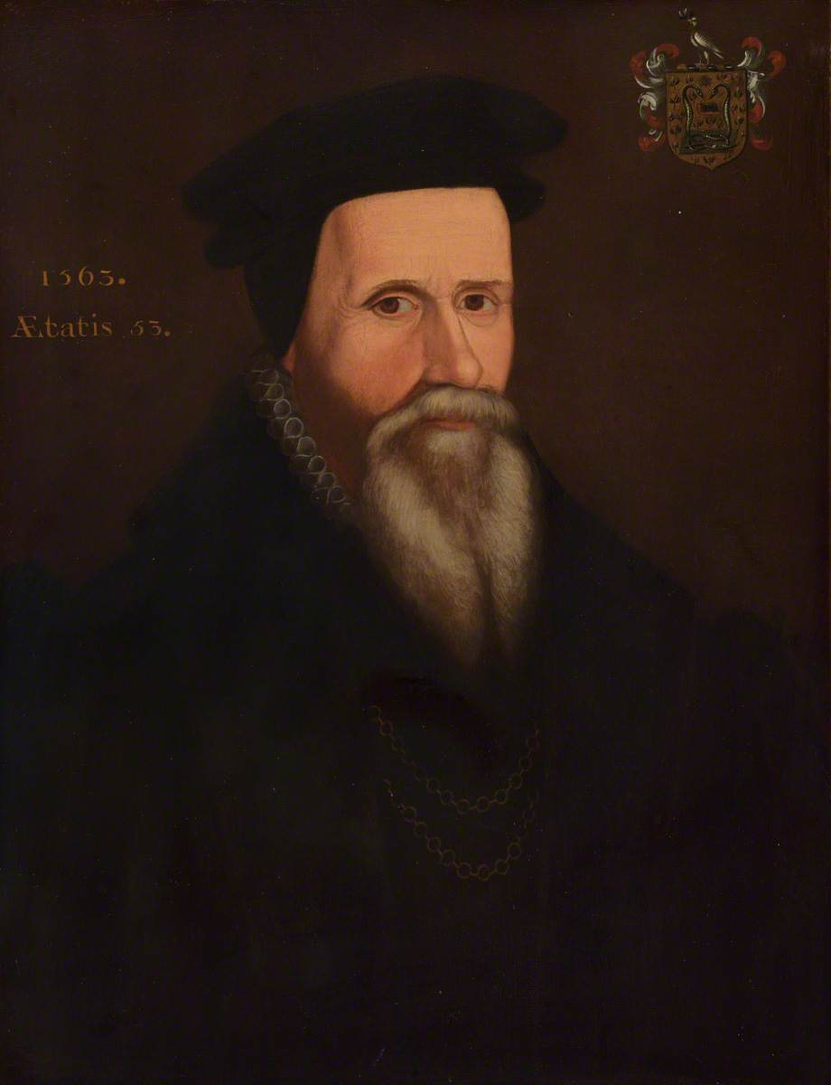 John Caius (1510-1573), Master of Gonville & Caius College, Cambridge